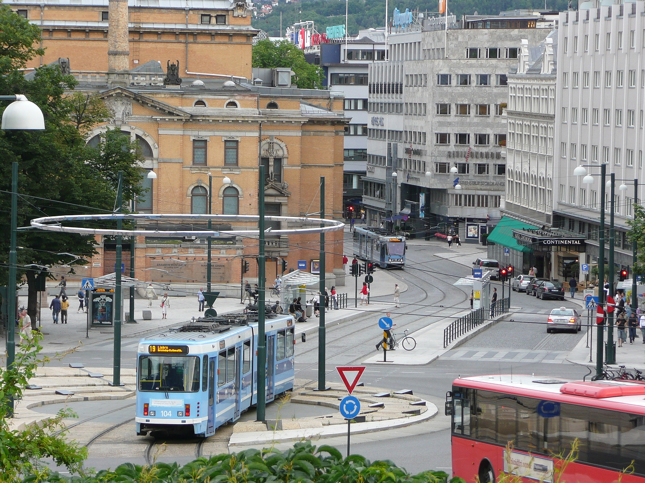 Two SL79 trams at Nationaltheatret